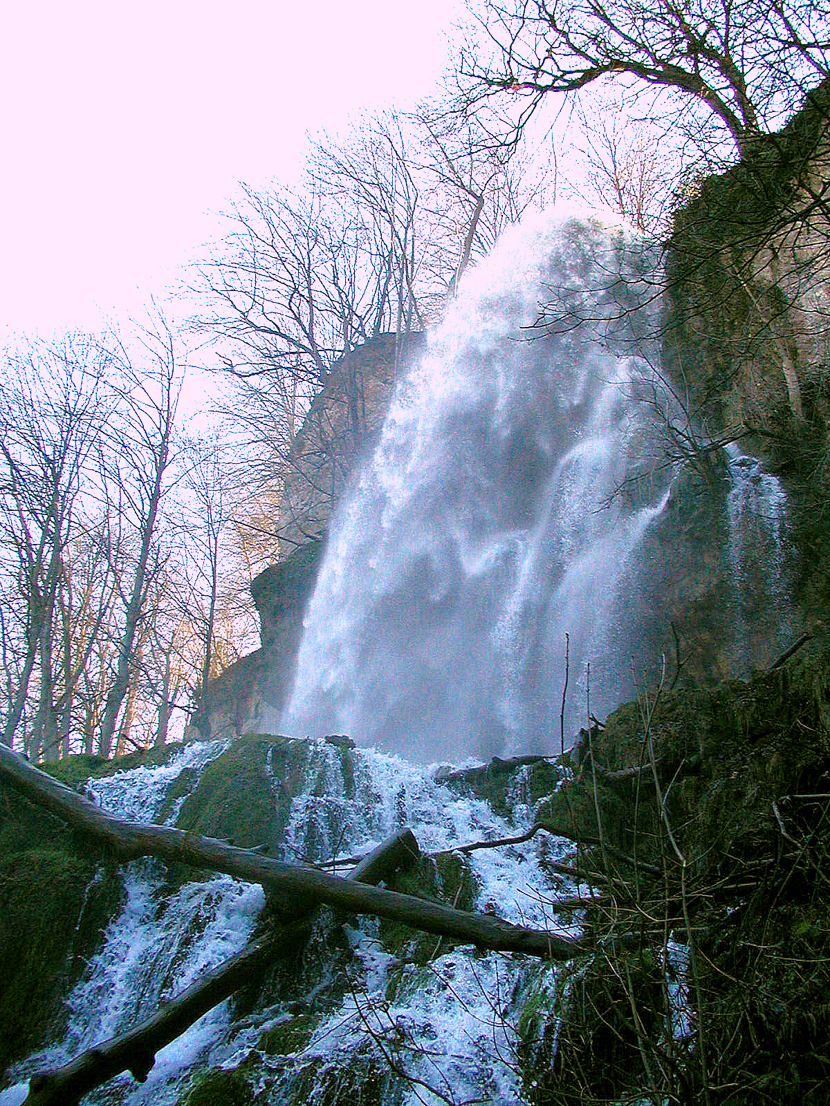 Waterfall near Urach, Germany, while snowmelt